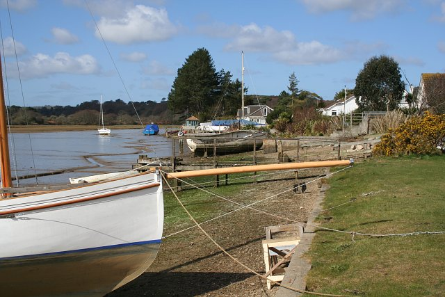 Devoran Quayside. A quiet quayside for pleasure craft at private moorings. In the mid 19th Century as many as 20 cargo ships per week docked at this quayside to take on board copper ore and tin delivered to the quayside by railway and bound for the smelters of South Wales.